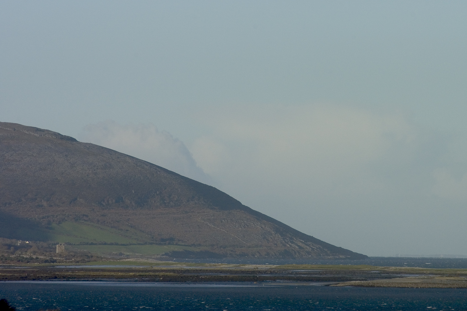 Gleninagh Castle is visible in the left bottom corner, Ireland, Danny Burke